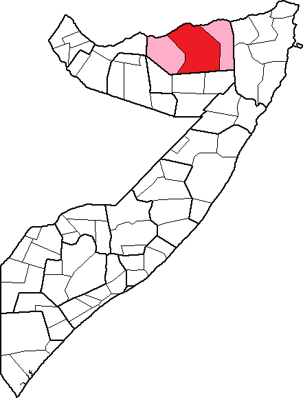 Location of the Erigavo (Ceerigabo) district in the Sanaag region, Somalia. Boundaries reflect those endorsed by the Republic of Somalia in 1986.